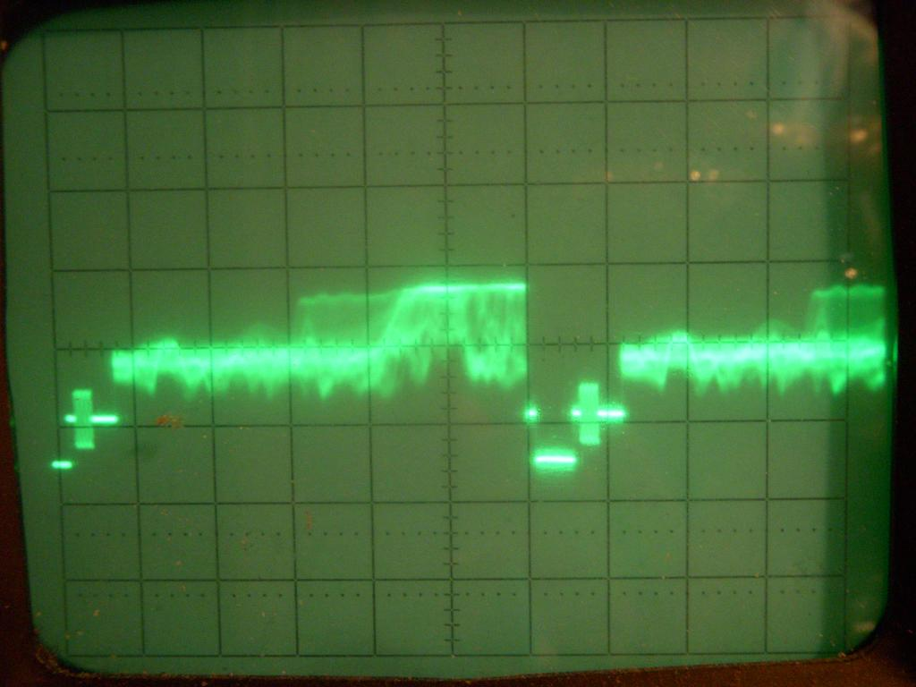 Scan line of PAL videosignal. Shows the horizontal sync pulses, porches, color burst, and the scan line itself.